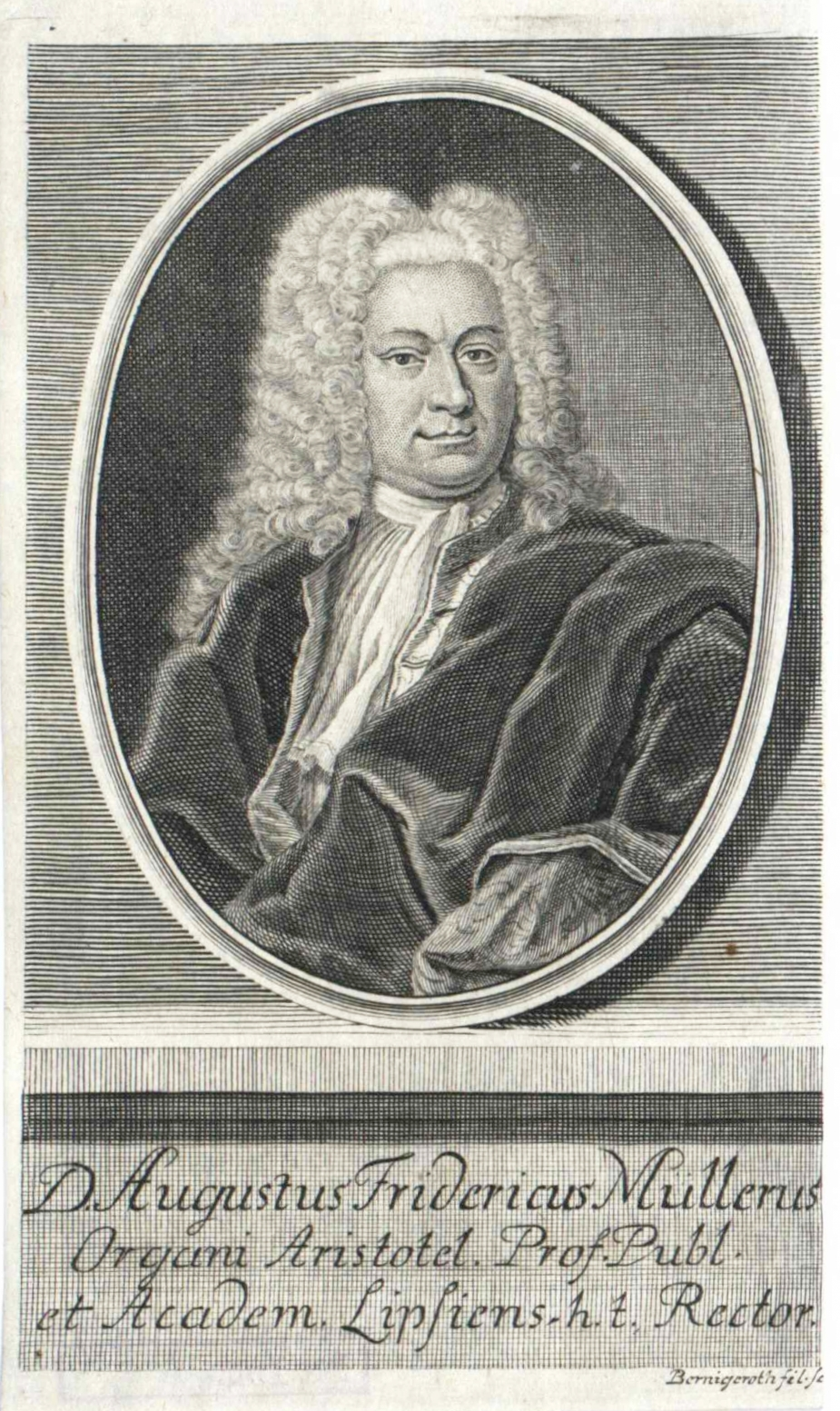 August Friedrich Müller (1684-1761) German Philosopher and Jurist